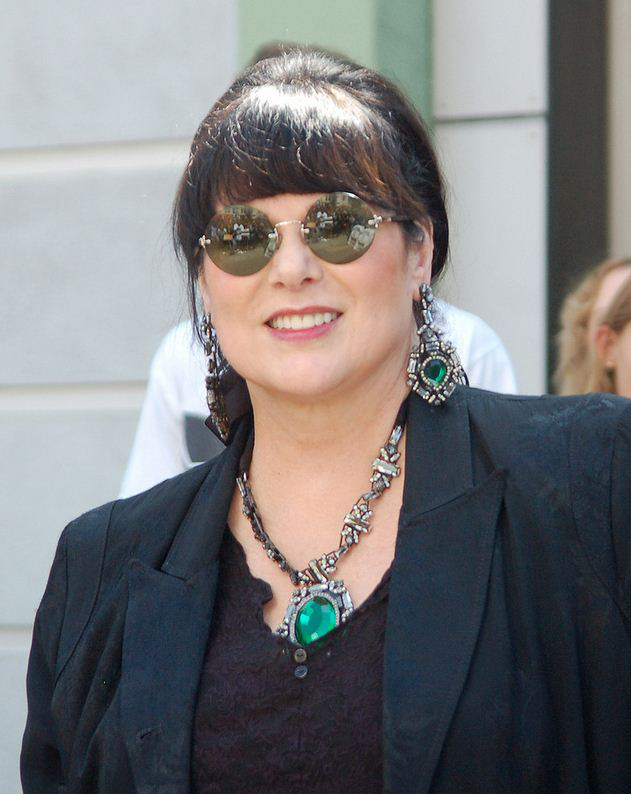 Ann Wilson at a ceremony for Heart to receive a star on the Hollywood Walk of Fame.